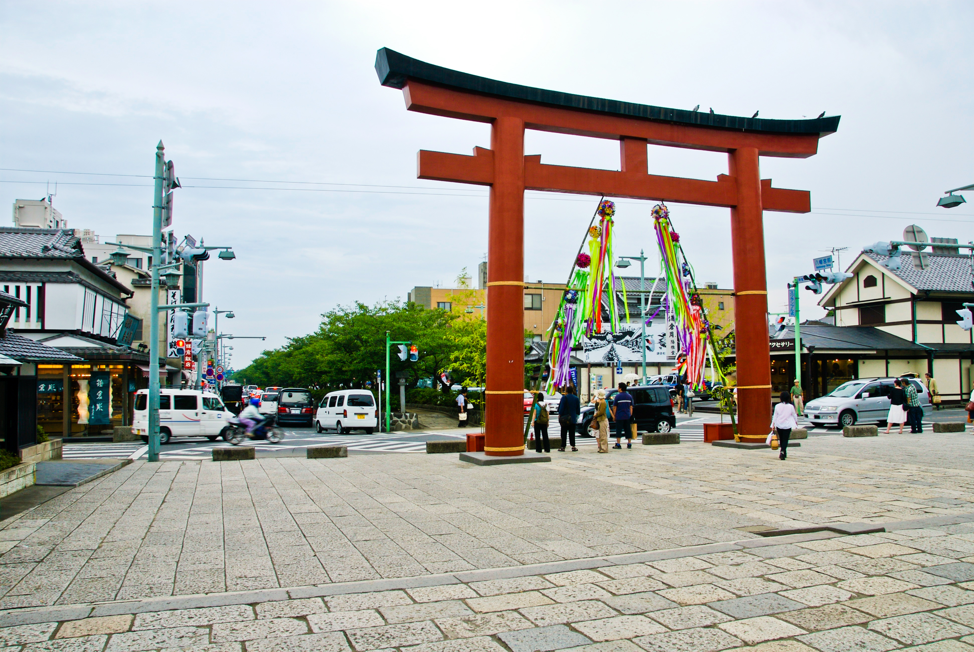 Yoko Ōji, Wakamiya Ōji and Ichi no Torii in Kamakura